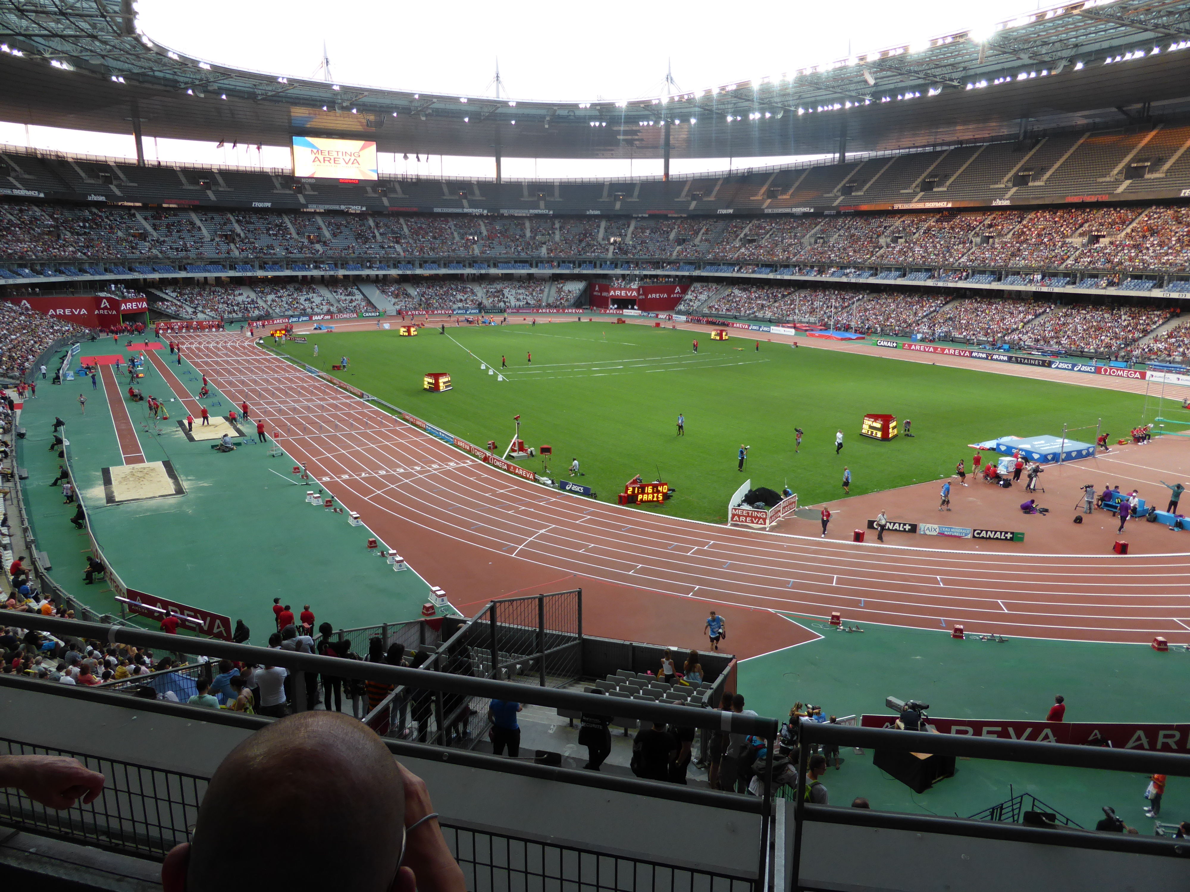 2015 Meeting Areva, Stade de France, Paris.